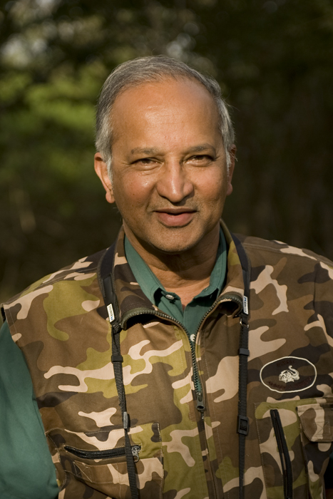 Portrait of Dr Ullas Karanth